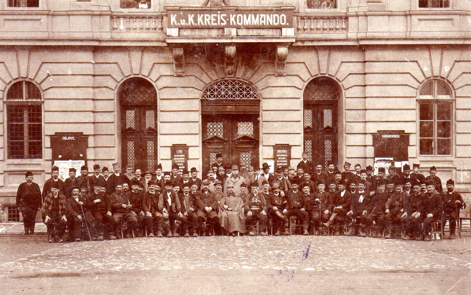 Military Command in Uzice 1916